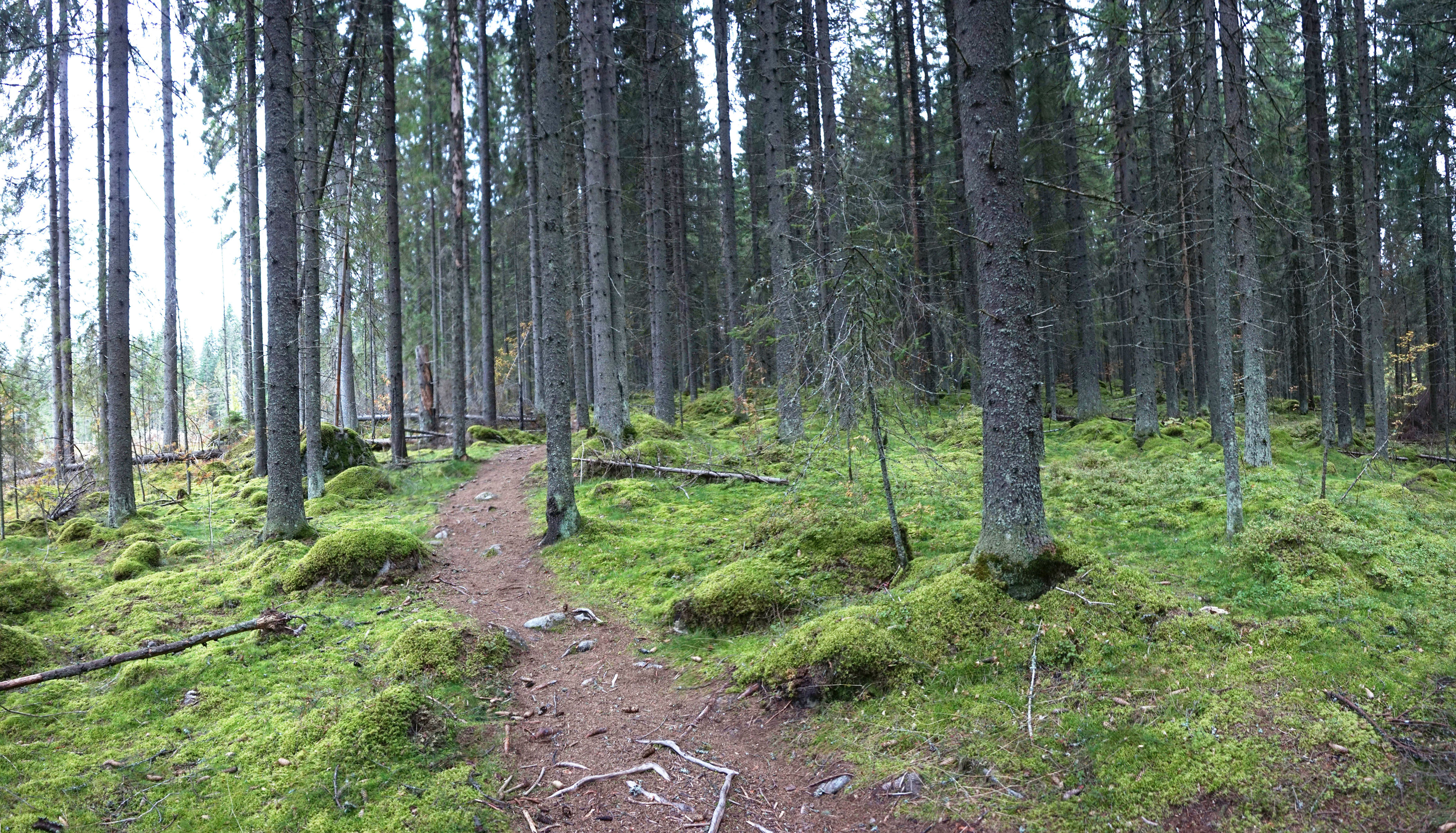 Path on a forest in Jyväskylä.This photograph was taken with a Sony ILCE-5000